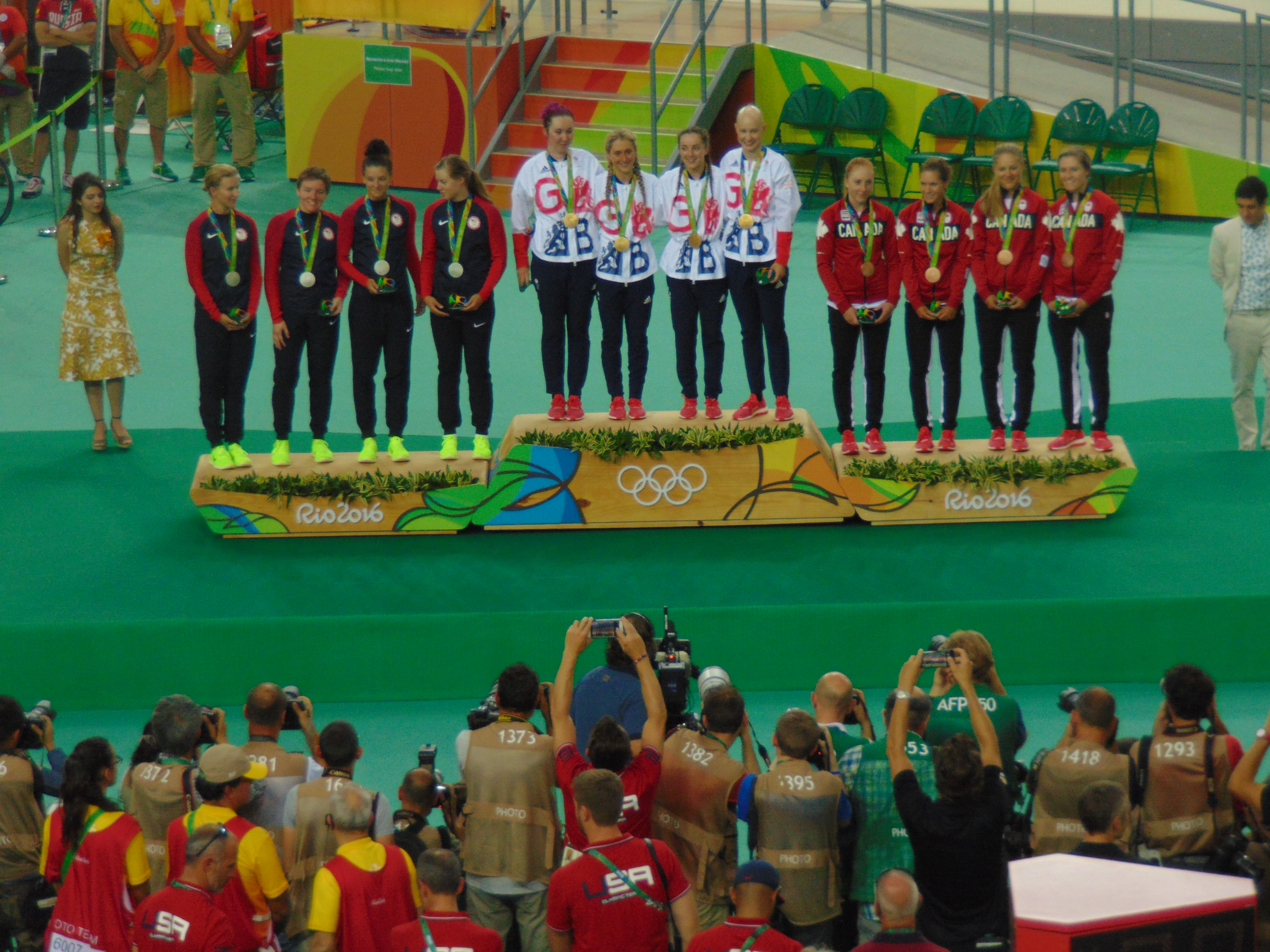 Rio 2016 - Track cycling 13 August (CT004)